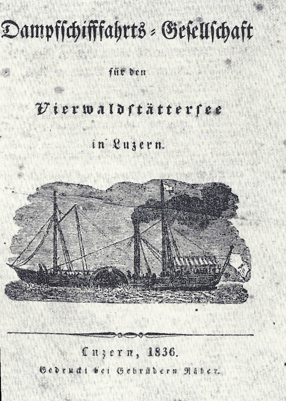 Title page of the Articles of Association for the first Lake Lucerne steam ship company, 1836.